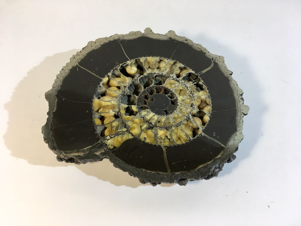 Распил раковины аммониты.С внутренним заполнением - симбирцит.